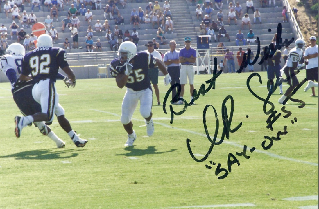 Junior Seau-Training Camp-1994 Photo Credit: Rob Street White "Throwback" Helmet